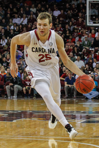 Photo by Chris Gillespie Mindaugas Kacinas